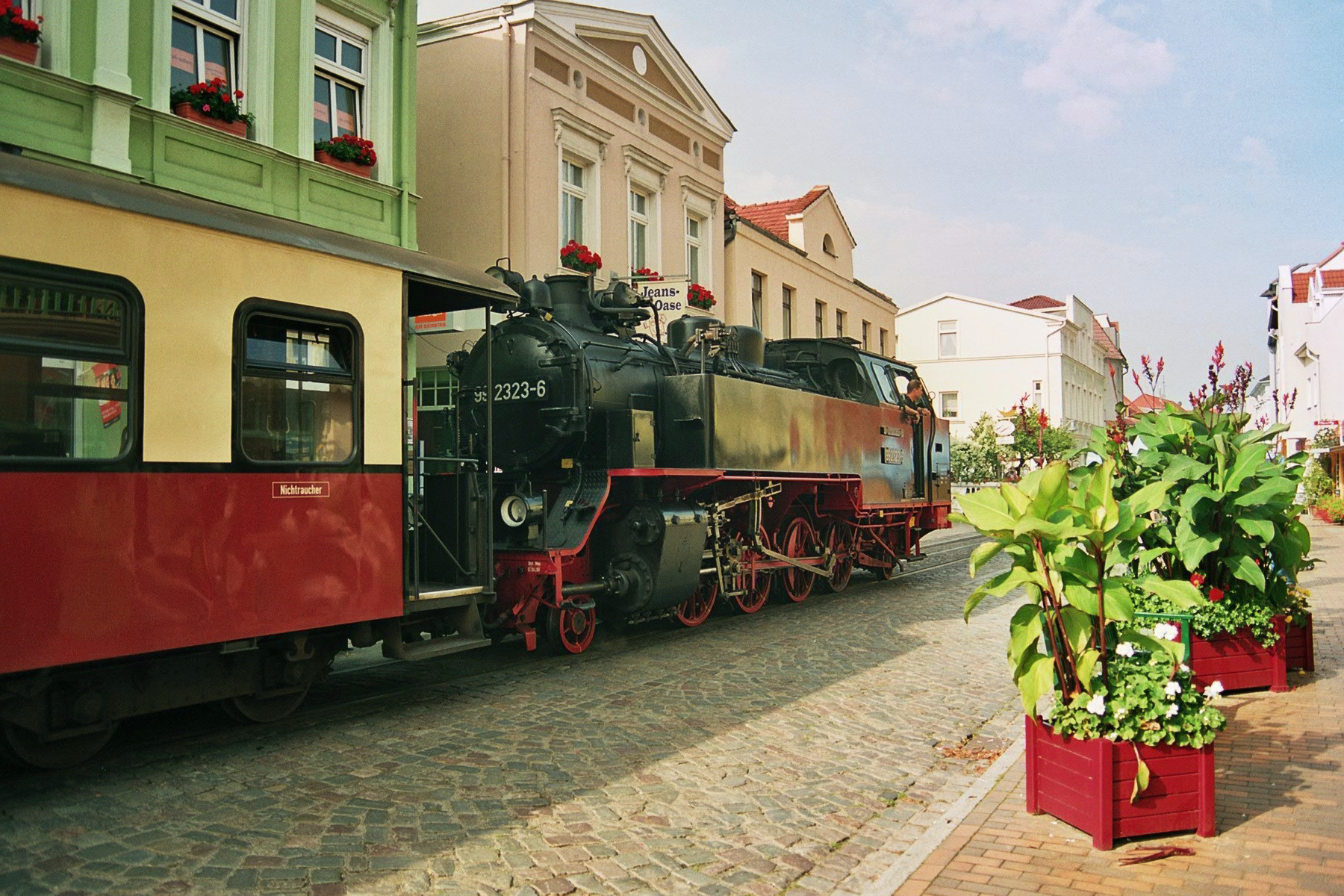 This image shows a train of the narrow-gauge "Molli"-railway in the streets of Bad Doberan.